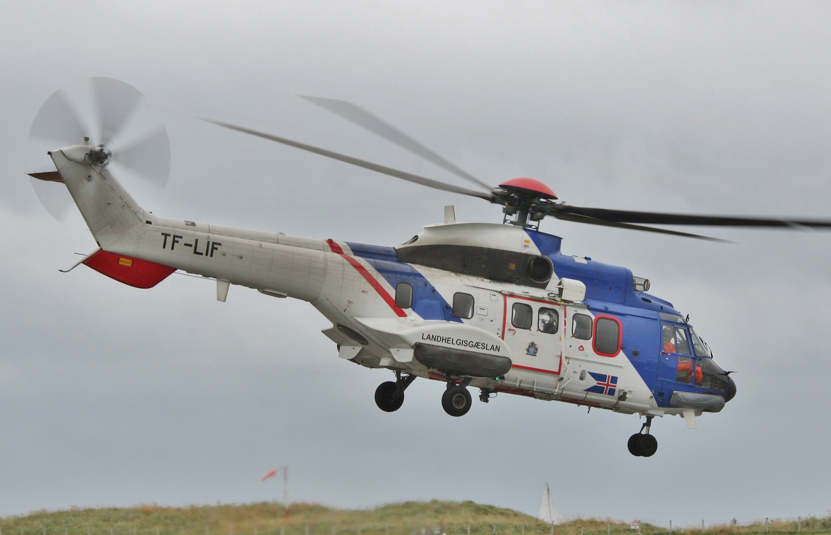 Icelandic Coast Guard AS 332 helicopter